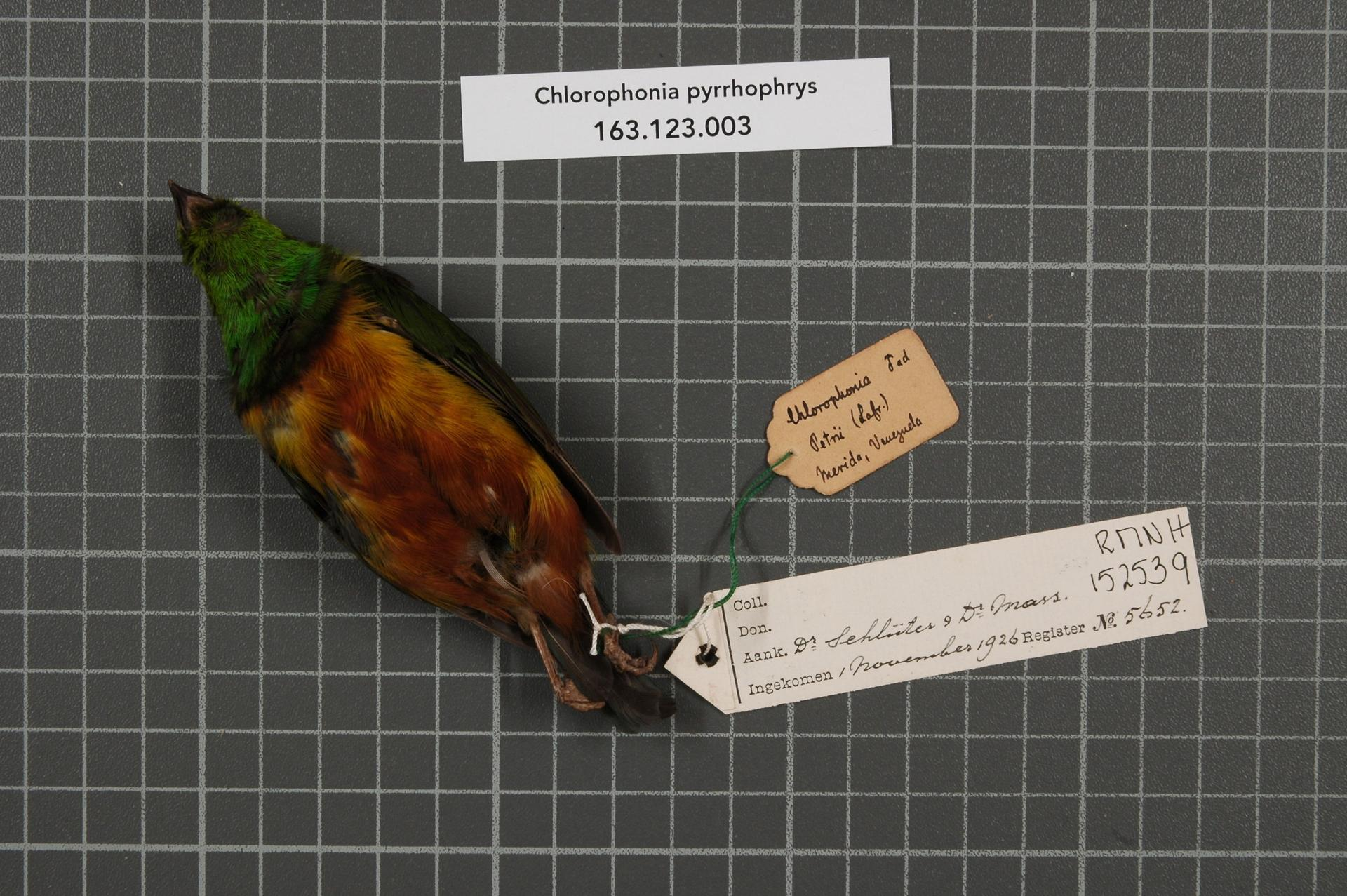 Chlorophonia pyrrhophrys (Sclater, 1851)